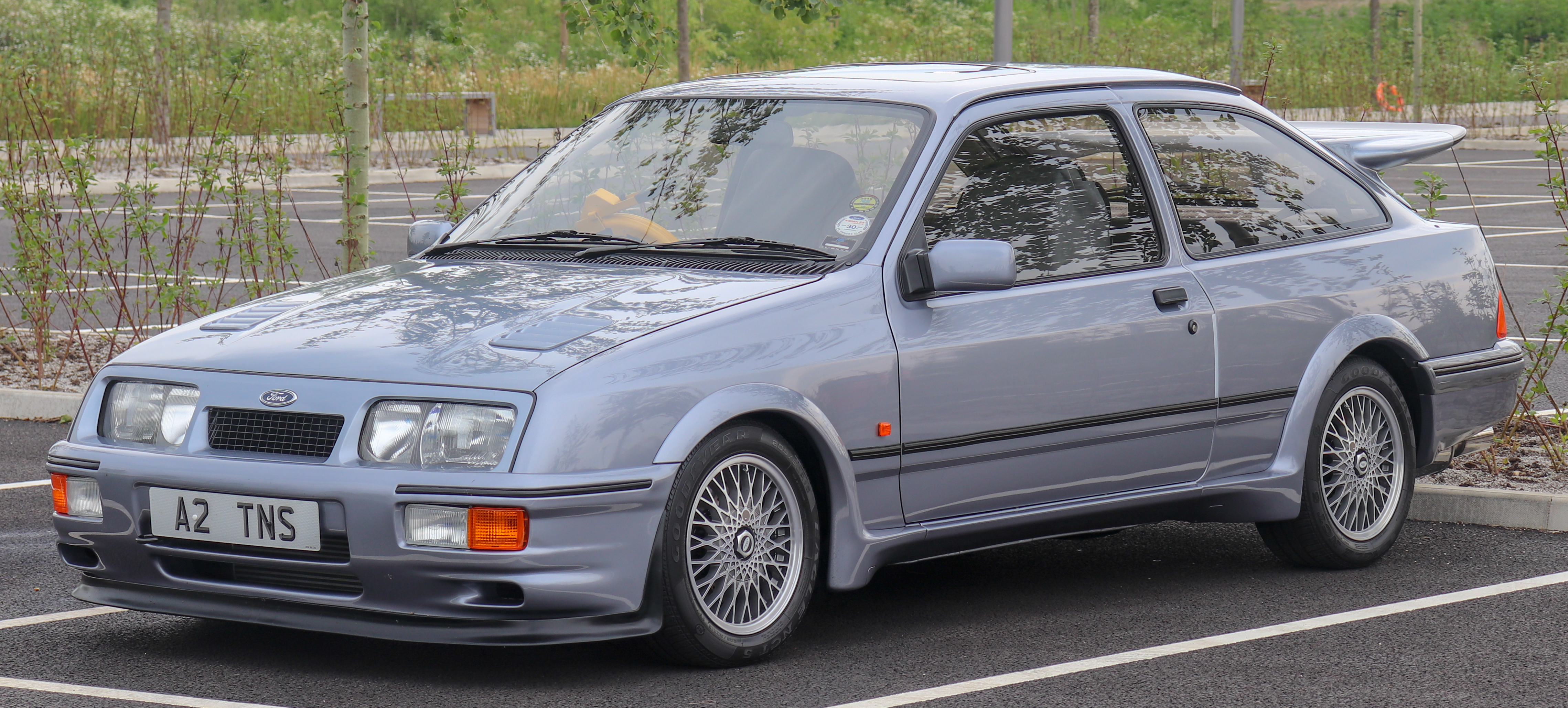 1986 Ford Sierra RS Cosworth Taken at the British Motor Museum, Gaydon